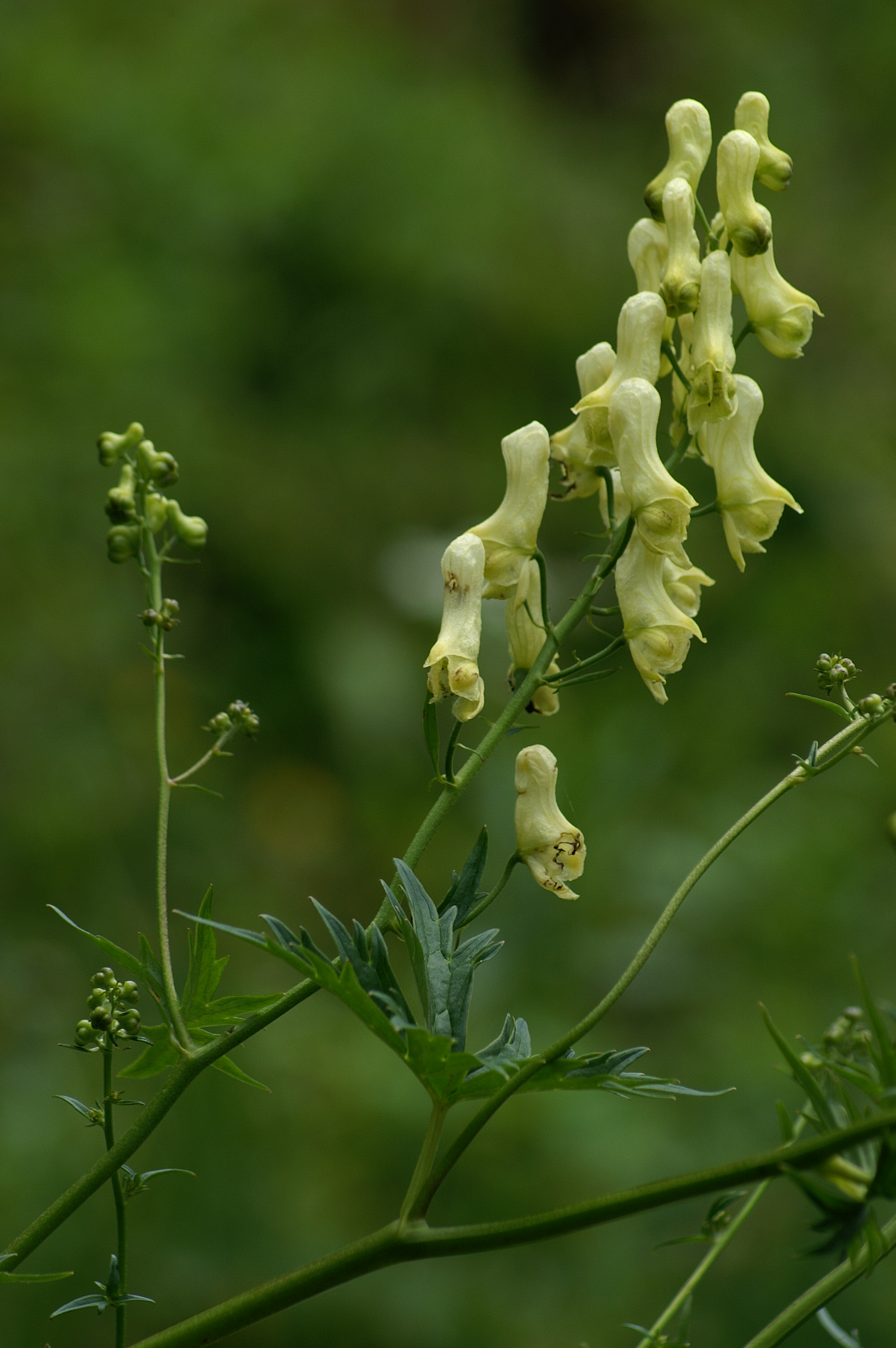 Aconitum lycoctonum Aconitum lycoctonum (Northern Wolfsbane; syn. A. septentrionale Koelle) is a species of the genus Aconitum, native to Europe and northern Asia.